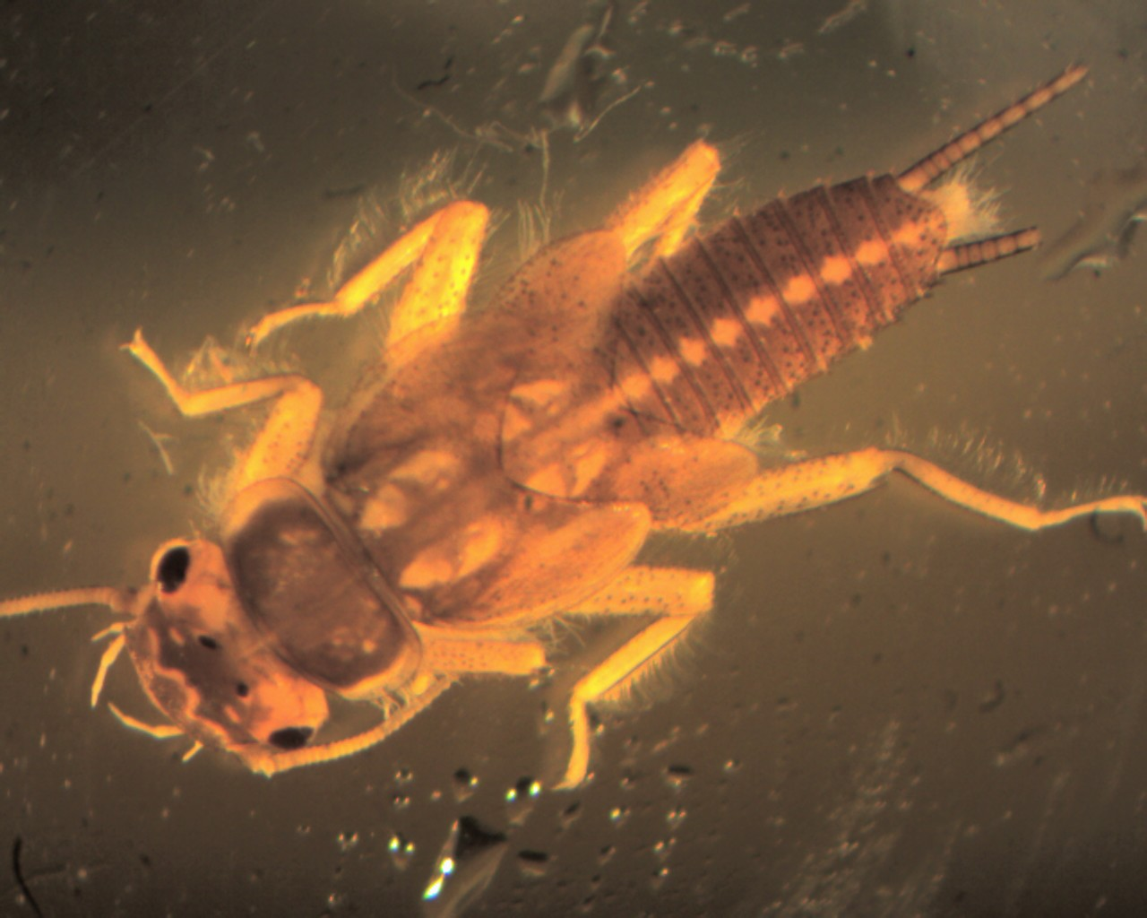 O: Plecoptera F: Perlidae G: Perlesta